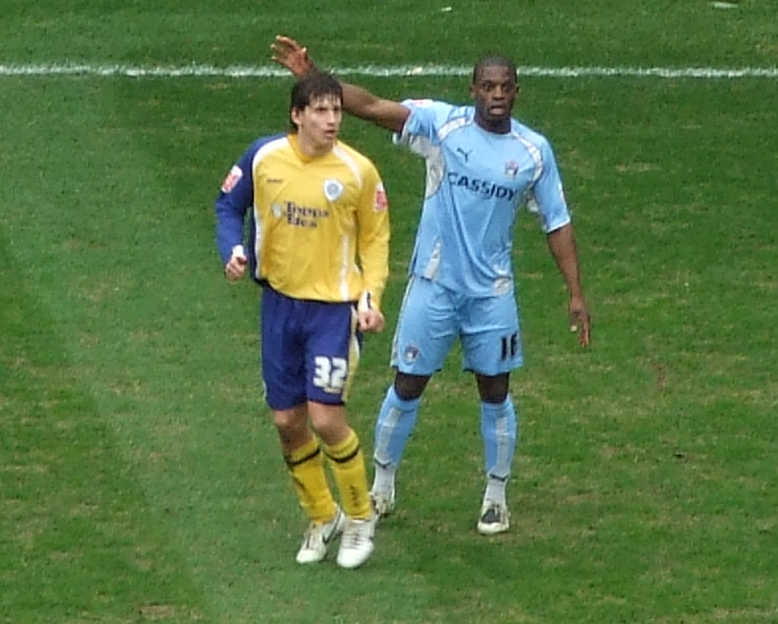 Zsolt Laczko. Image cropped from original at Flickr.